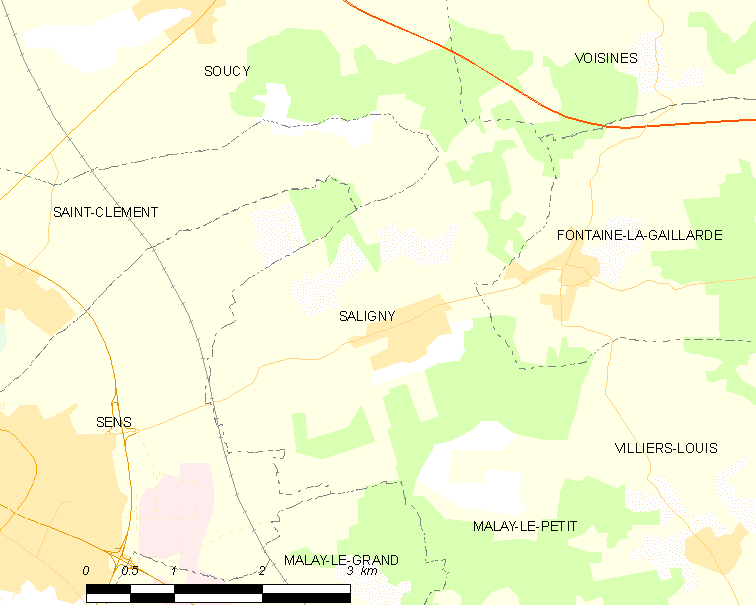 Map of French municipality Saligny